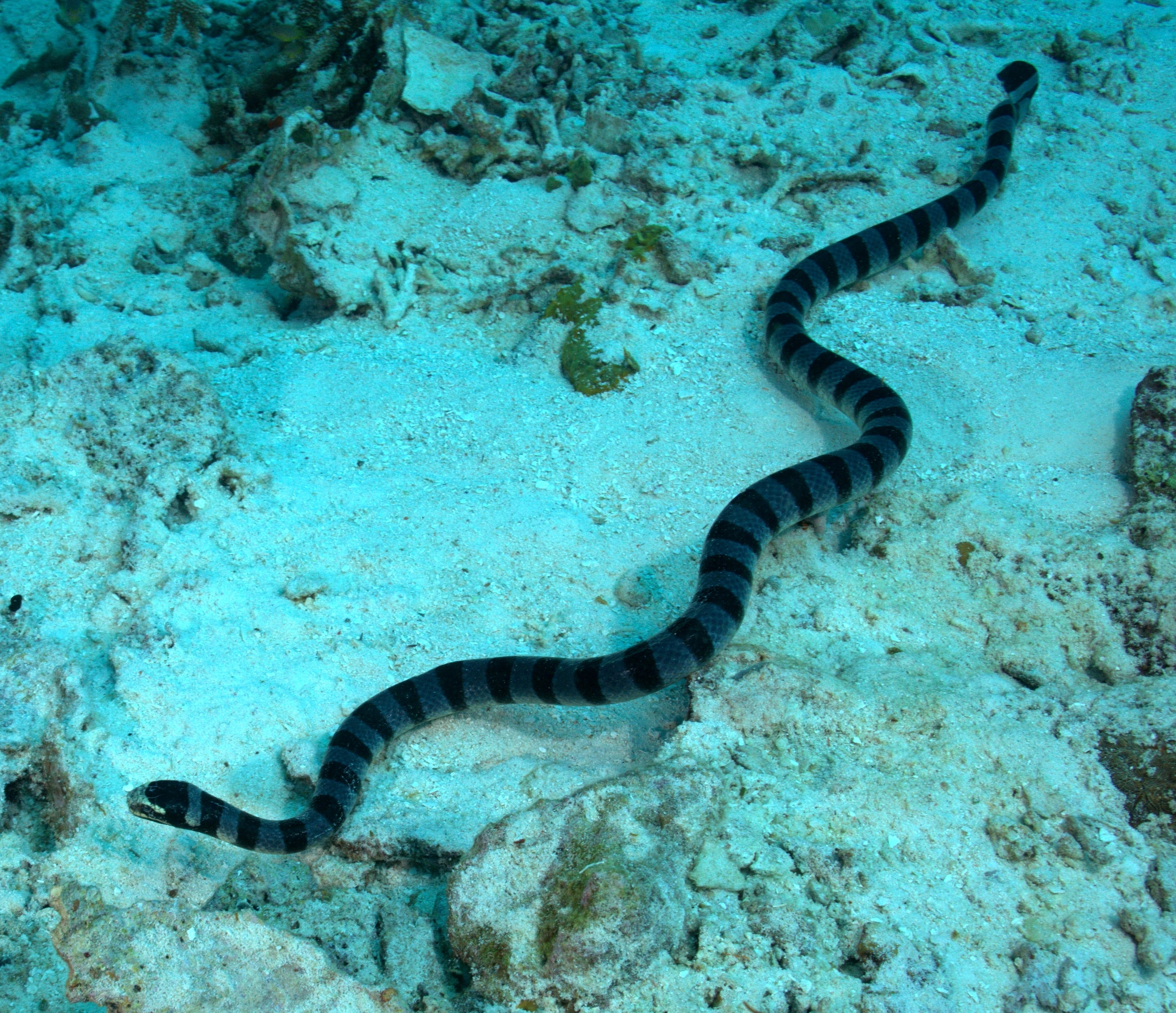 Sea snake